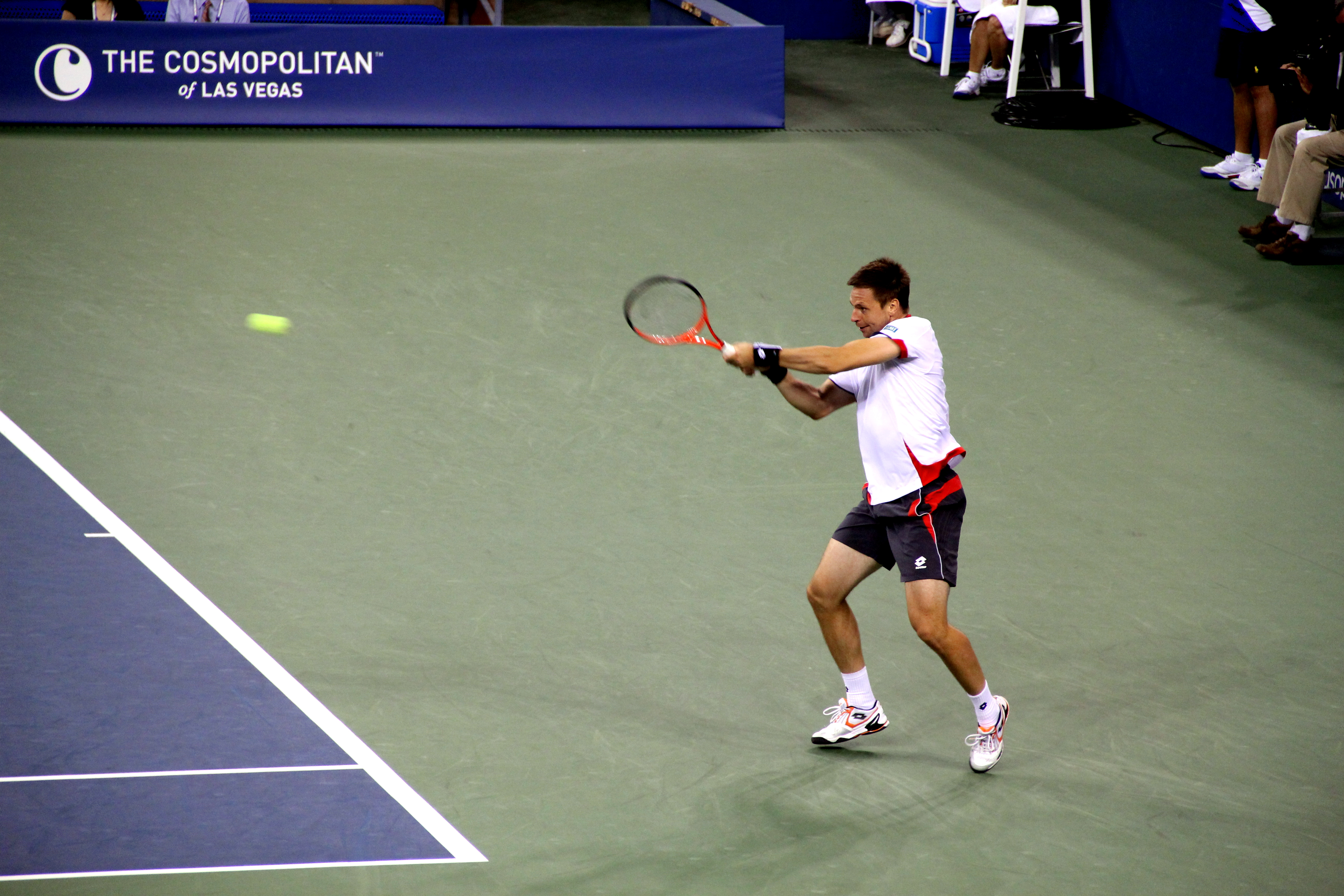 Robin Soderling on Wednesday night at the US Open where he lost against Roger Federer. The Cosmopolitan is in New York for the 2010 US Open, inviting attendees and guests to experience signature views from our Overlook and in our custom designed suite with prime-stadium seating. For more information on The Cosmopolitan visit